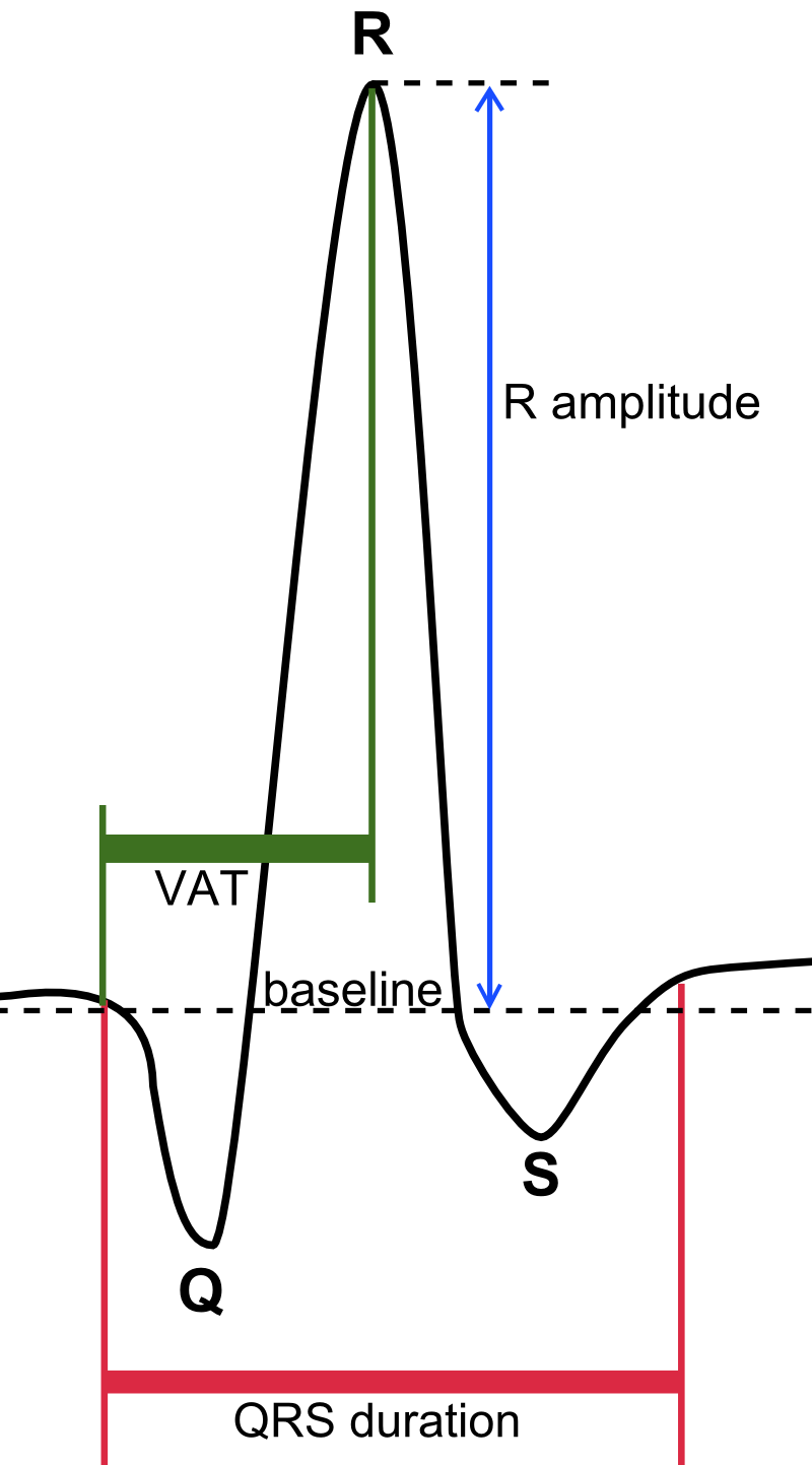 Components of the QRS complex.